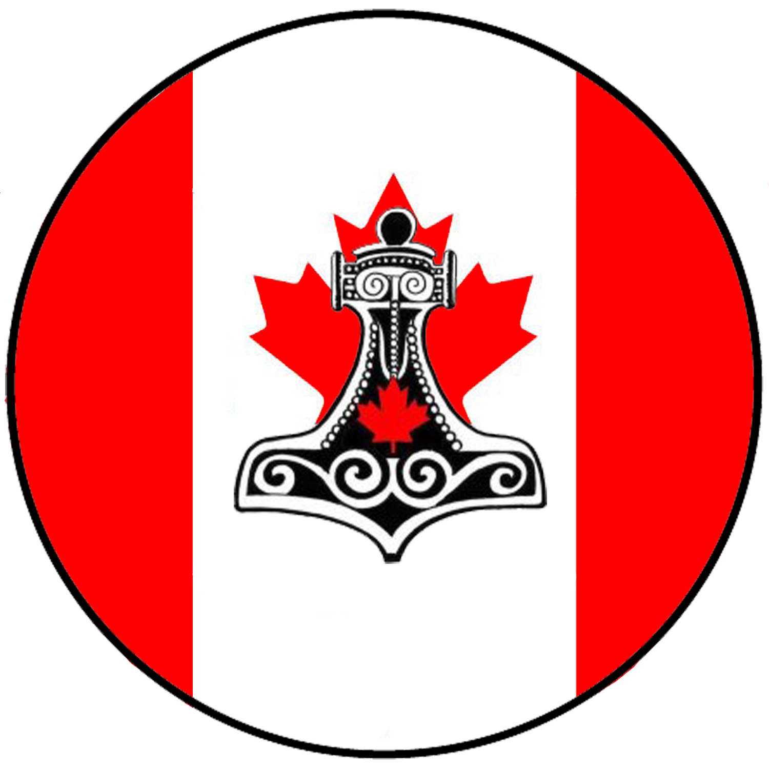 A symbol for Heathens in Canada. Combining the Canadian Flag and a mjolnir into a shield.